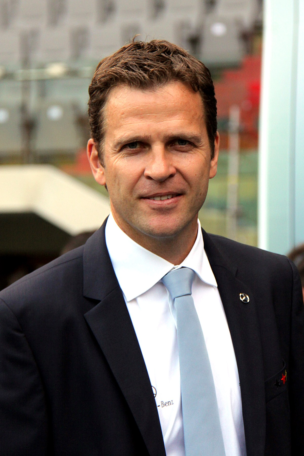 Oliver Bierhoff, business manager of the german national football team - OpenStreetMap(Info)